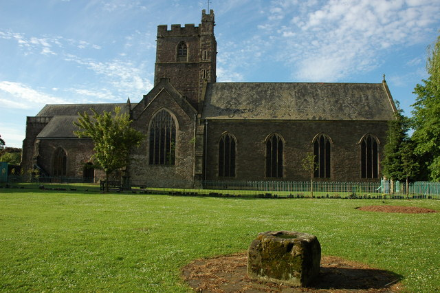 St Mary's Priory Church, Abergavenny Pictured here in early morning spring sunshine St Mary's Priory Church in Abergavenny was originally a Benedictine priory founded in the late 11th century by Hamelin de Ballon, Lord of Abergavenny. During the Dissolution of the monasteries the people of Abergavenny gained control of the church. Though dating from the late 11th century what we see today is from the early 14th century.